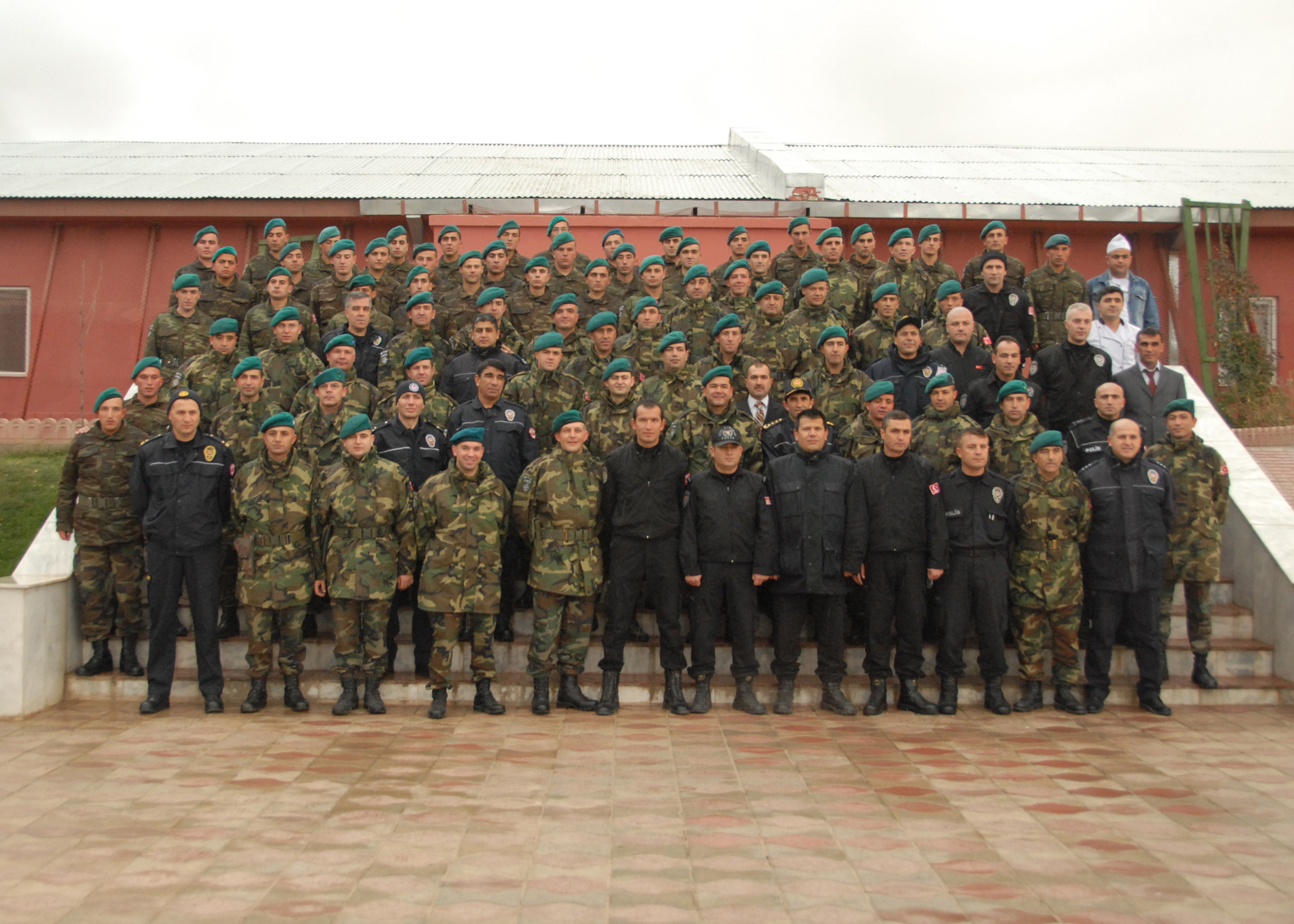 MAIDEN SHAHR, Afghanistan--Military and Civilian members of the Turkish Provincial Reconstruction Team (PRT) stand for a group photo in the courtyard of the PRT compound on Dec. 9, 2008. The Turkish PRT is the only one of 26 throughout Afghanistan that is run solely by civilians, while the Turkish Army lends support to maintain force protection of the PRT compound. ISAF photo by U.S. Navy Petty Officer 2nd Class Aramis X. Ramirez (RELEASED)